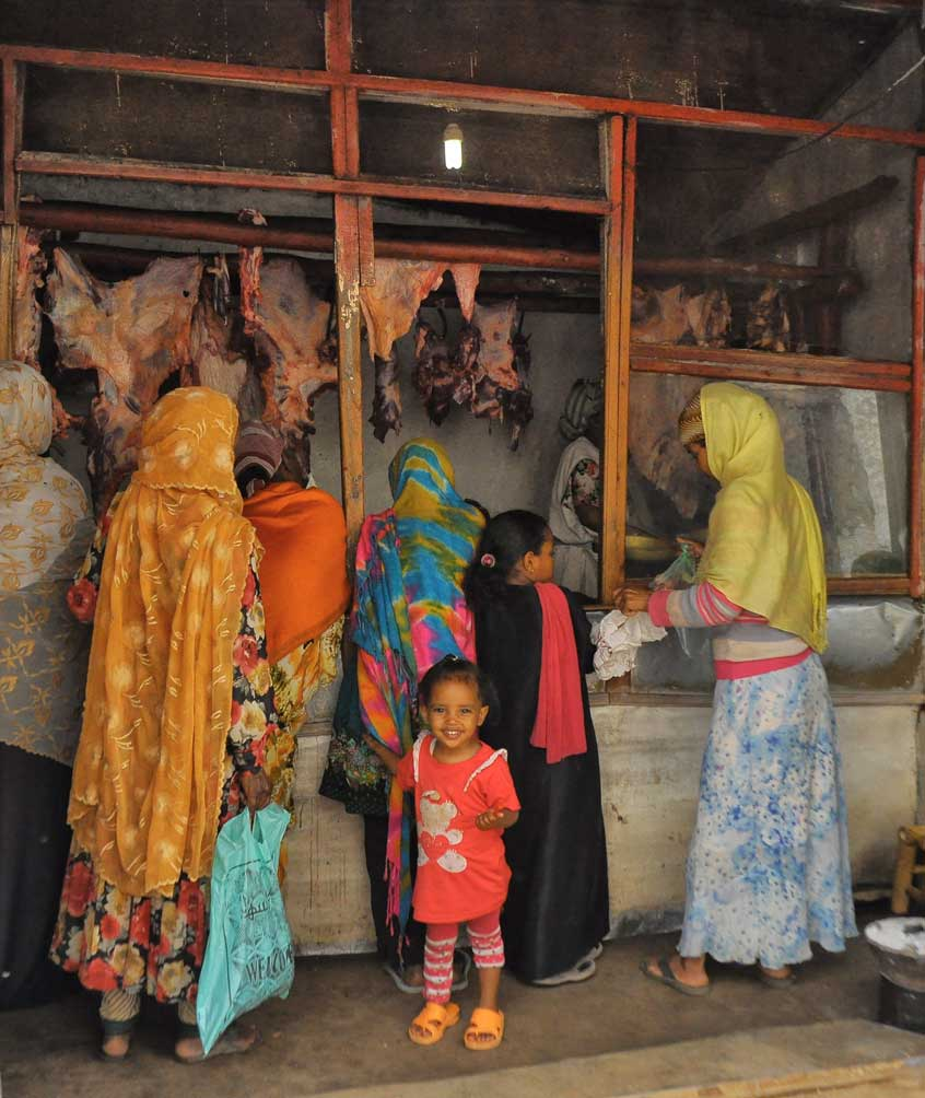 Harar, Ethiopia